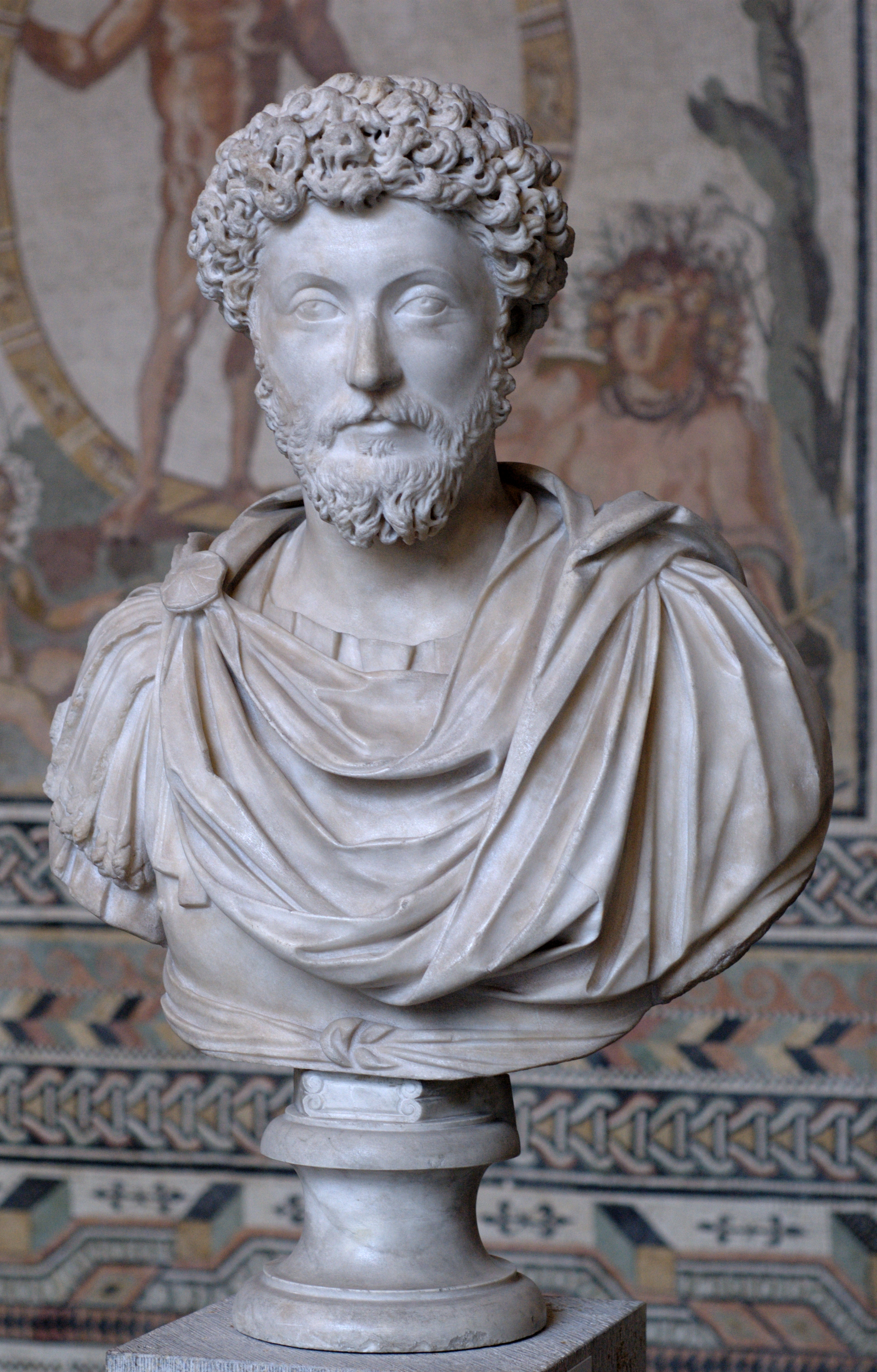 Bust of Marcus Aurelius (reign 161–180 CE).